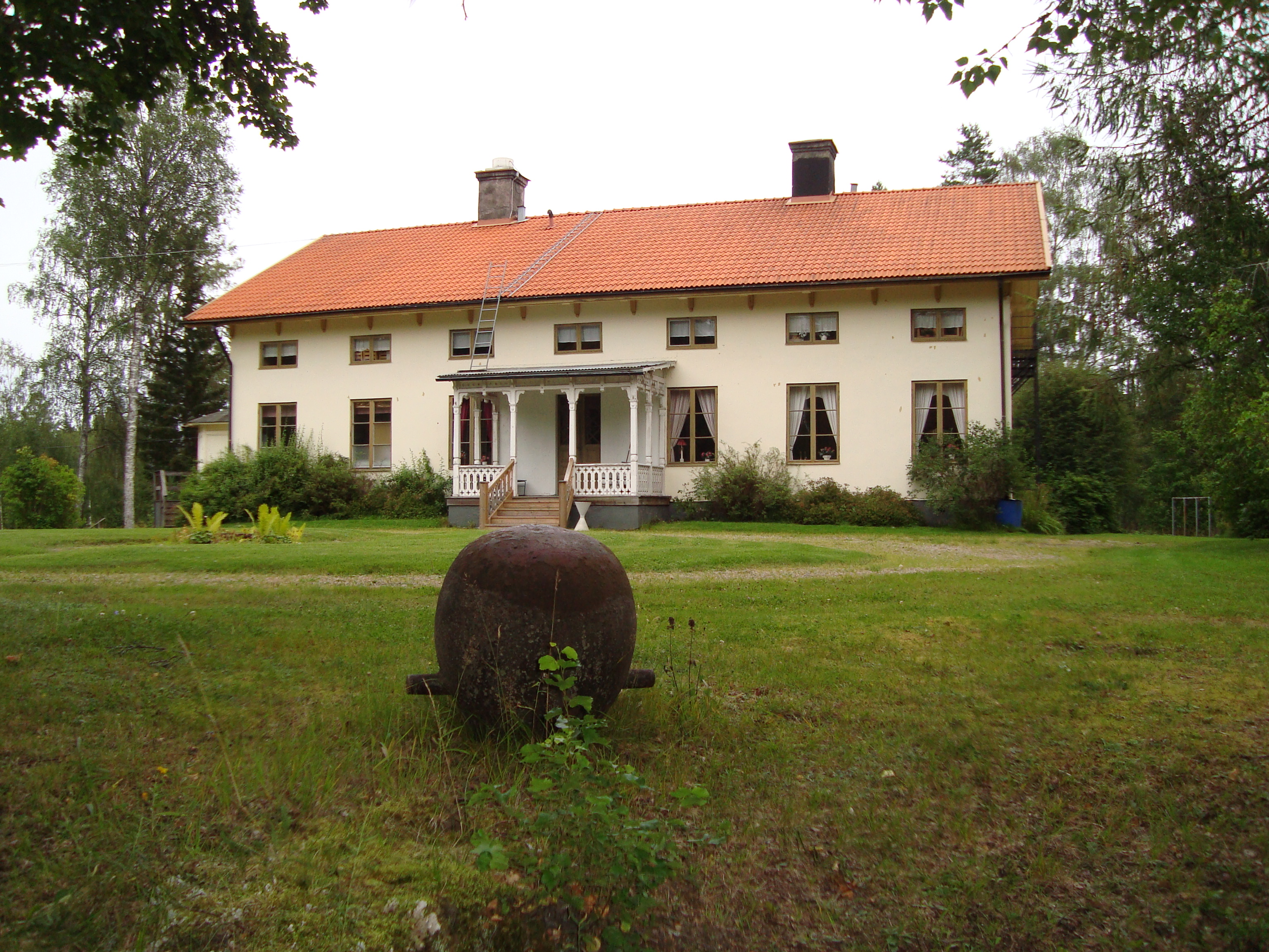 Korså mansion, at Korså ironworks, Sweden